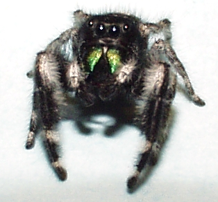 Photographed in central North Carolina, USA, by Patrick Edwin Moran. This jumping spider is of the genus Phidippus, the species is probably whitmani. Behaviorally this spider is different from Phidippus audax (which it also resembles) by being both rather shy and also rather inclined to make a threat display. Its body is approximately 8 mm. long.